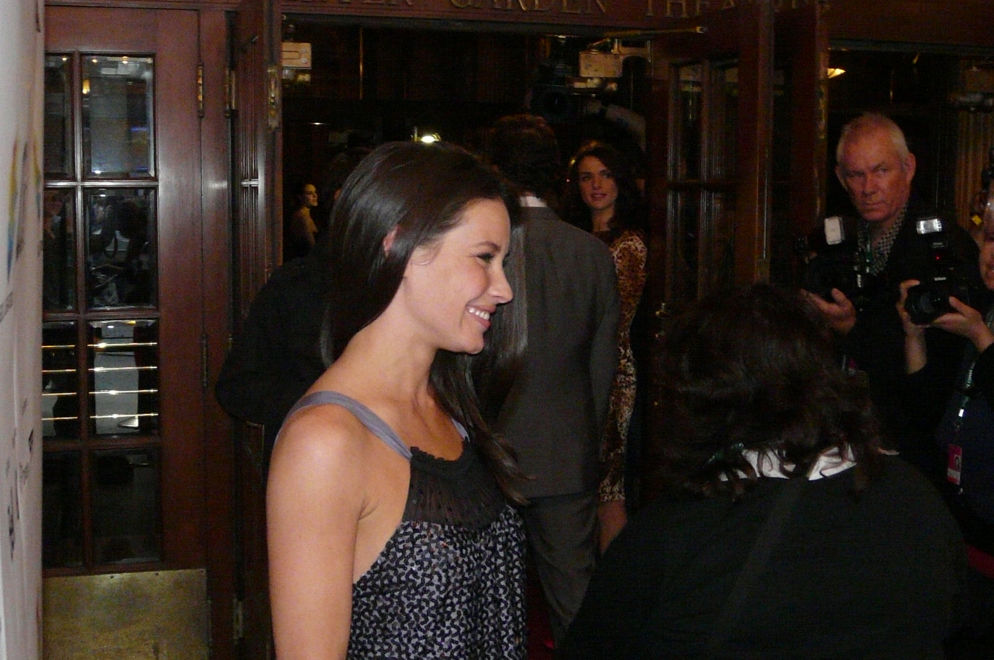 Marisa Tomei Posing for Photos infront of the Elgin Theatre for the tiff 08 premiere of The Wrestler Check out even more great Tiff Photos and Videos at